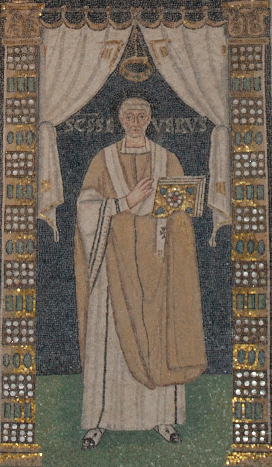 Mosaic from Sant'Apollinare Nuovo, at Ravenna, representing Saint Severus of Ravenna.